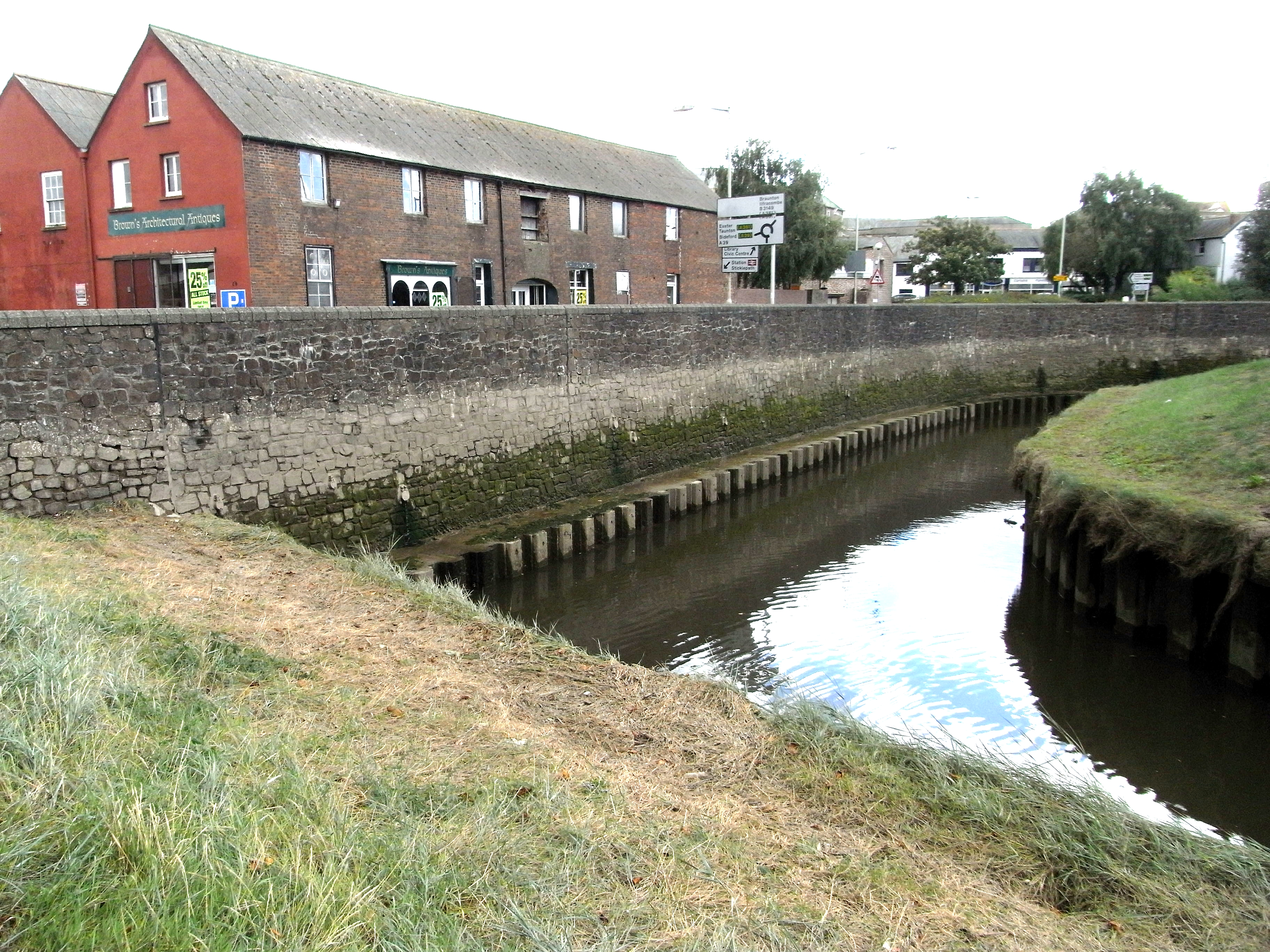 Pilton Causeway, looking towards Barnstaple. Here it crosses the tip of one of the meanders in the River Yeo. Built by Sir John Stowford (d. circa 1372) of West Down